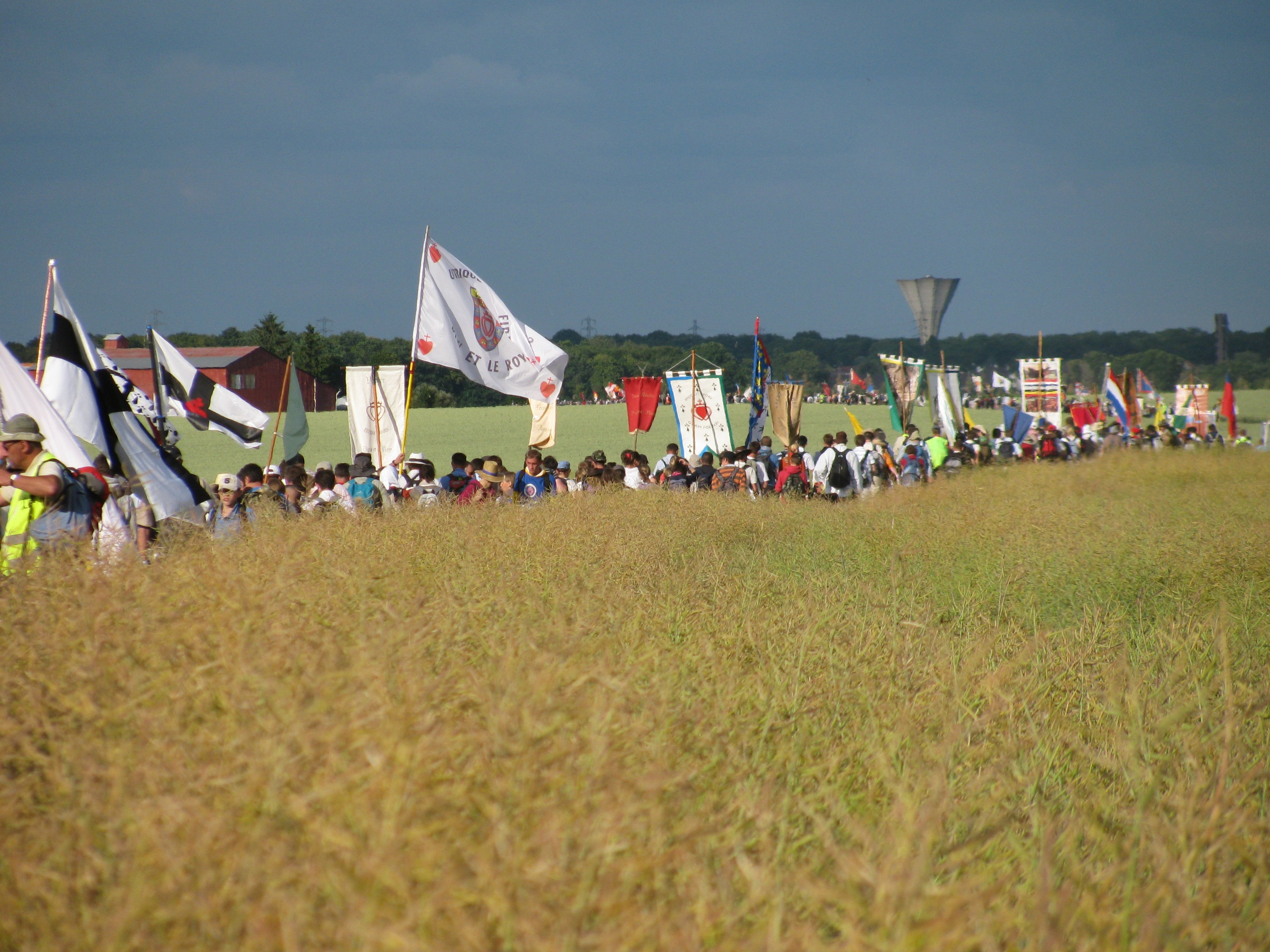 Jun 2011 - Pèlerinage de Tradition - pilgrimage from Chartres to Paris - first day